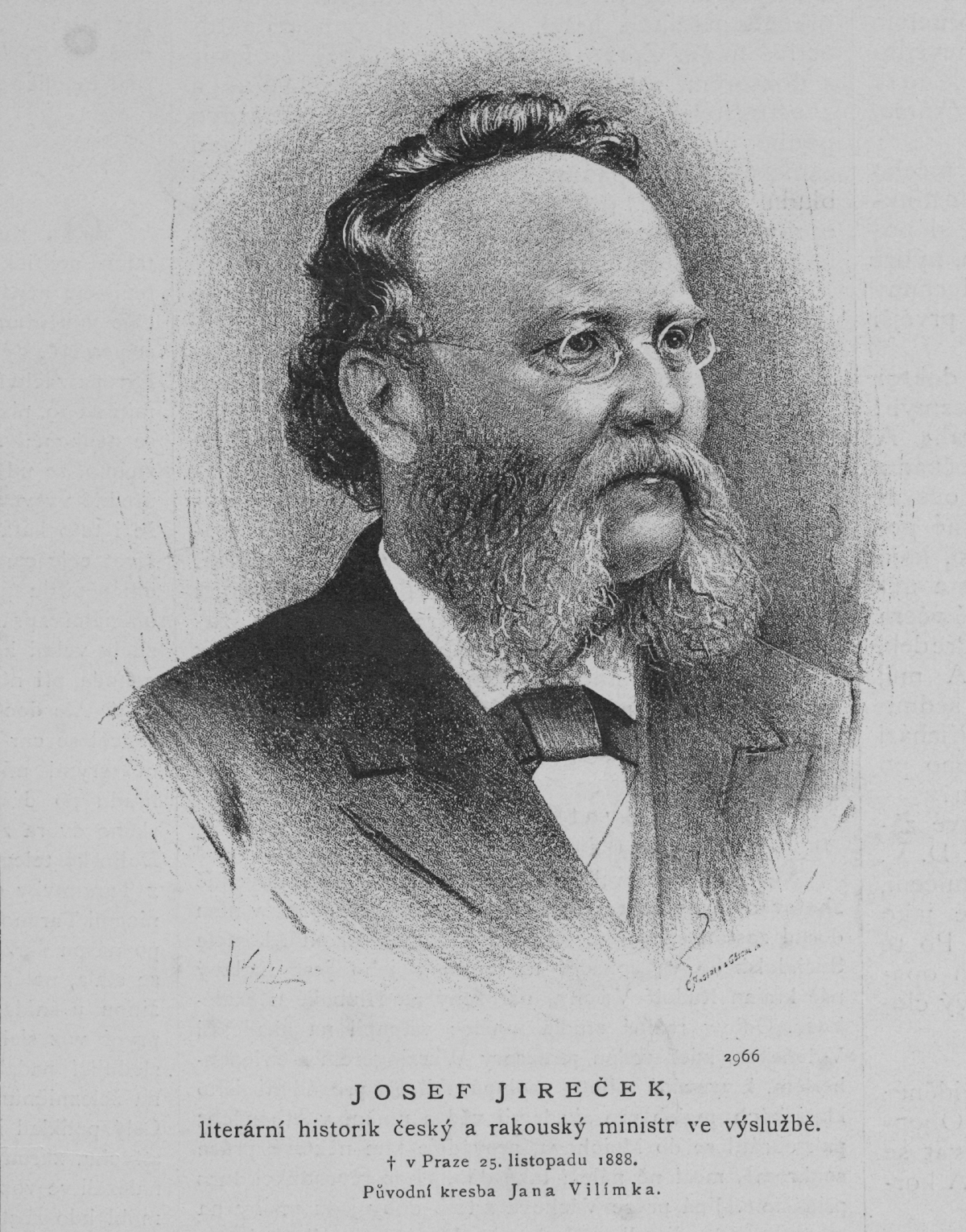 Portrait of Josef Jireček (1825 - 1888), Czech historian of literature and for a short time Minister of Education of Austria.